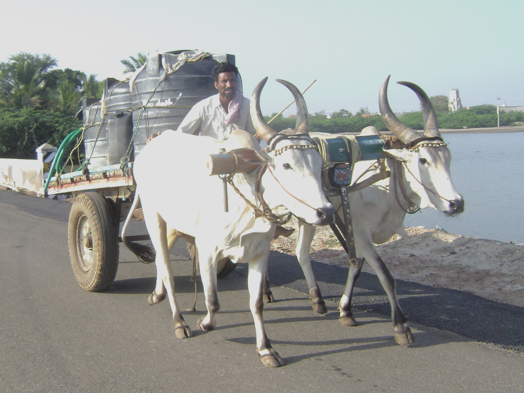 Point Calimere Wildlife and Bird Sanctuary, water barrels being transported into PCWBS by bullock cart